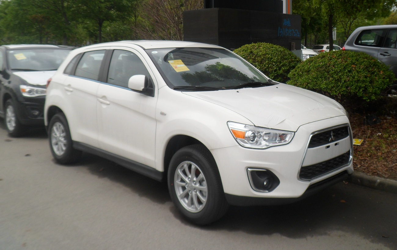 Mitsubishi ASX facelift photographed in Anting, Shanghai municipality, China.